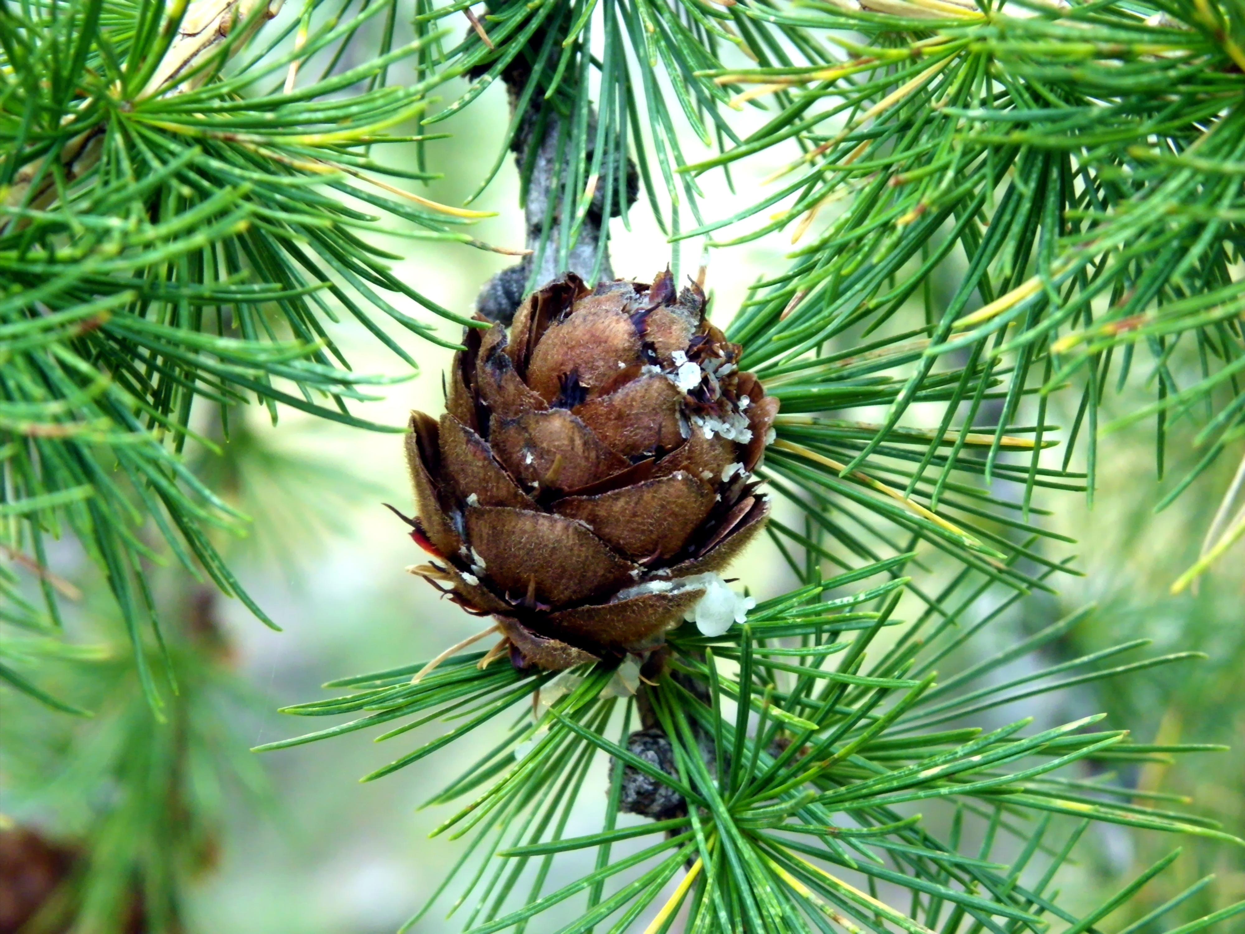 Larix decidua cone, Mercantour National Park, Alpes-Maritimes - Alpes-de-Haute-Provence, France.